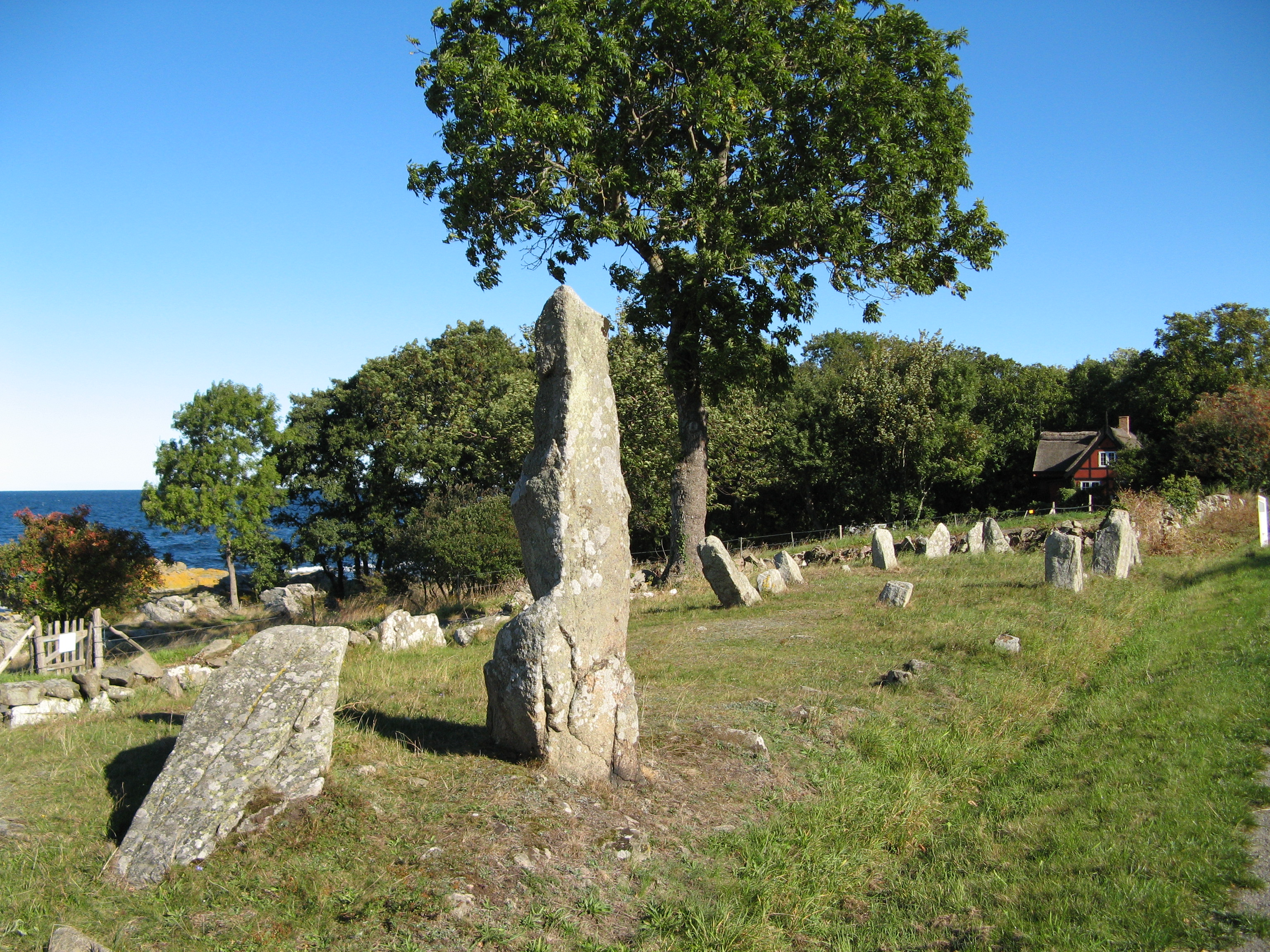 Hellig Kvinde by Listed, Bornhom